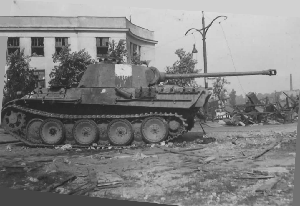 Warsaw Uprising in Poland, 1944. Okopowa 55a street. Polish Home Army tank Panther (one of two) used against Germans. Visible Polish flag.